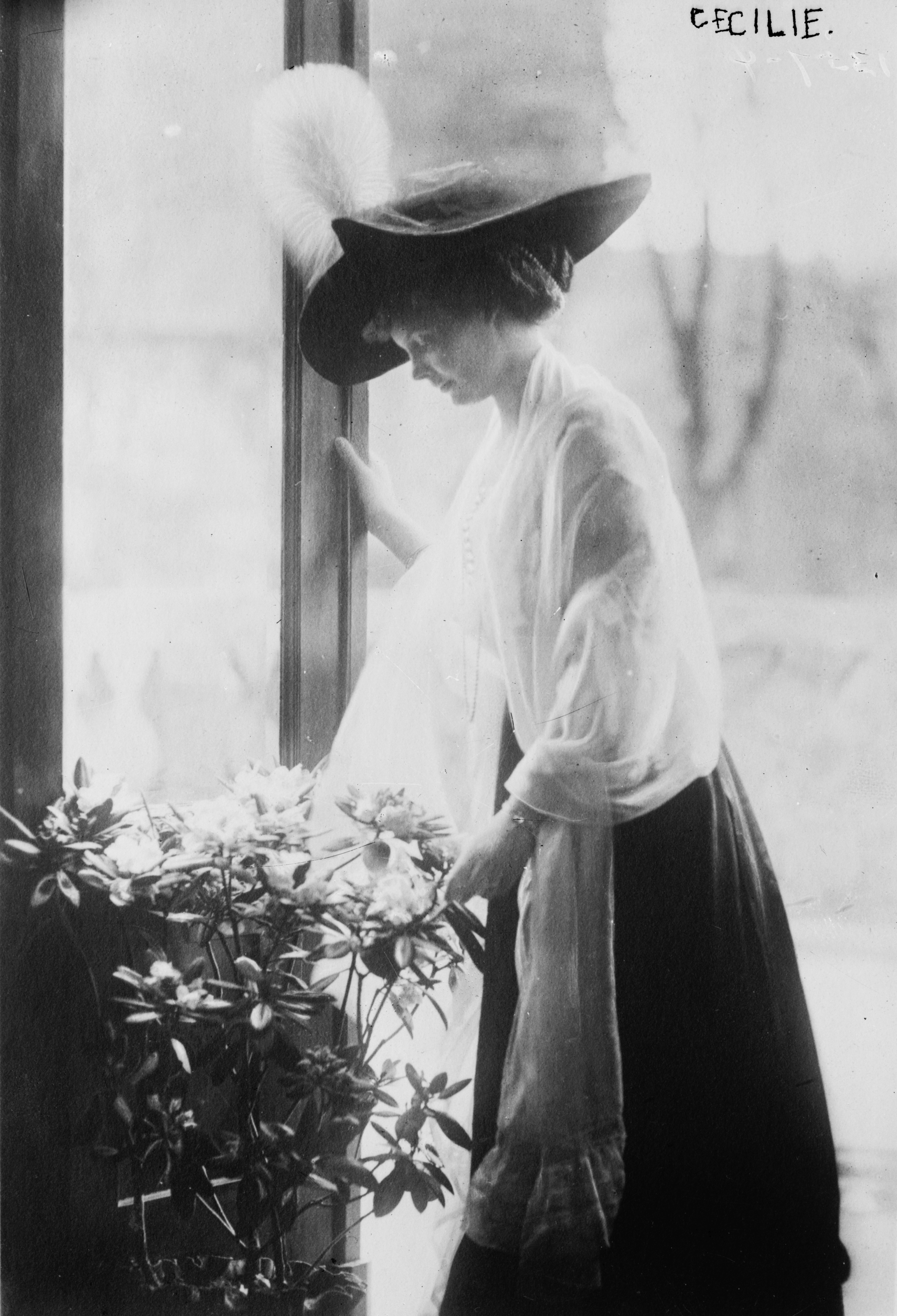 Duchess Cecilie of Mecklenburg-Schwerin.Reproduction Number: LC-DIG-ggbain-07267